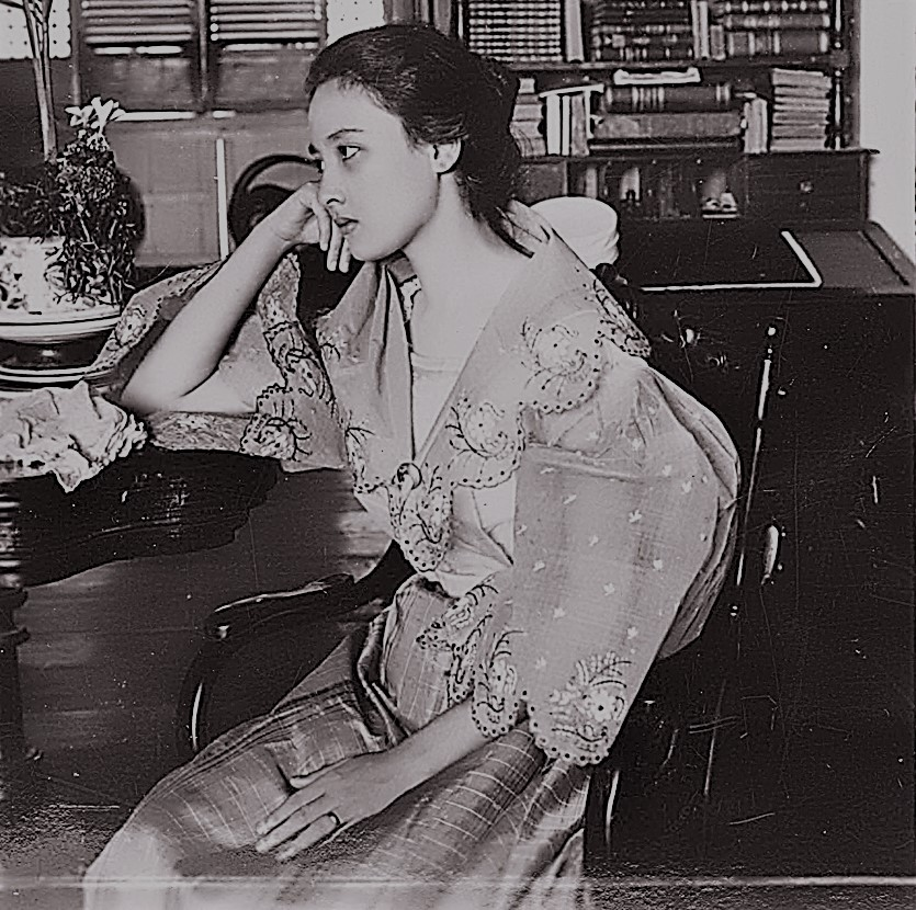 Filipino woman of colonial era